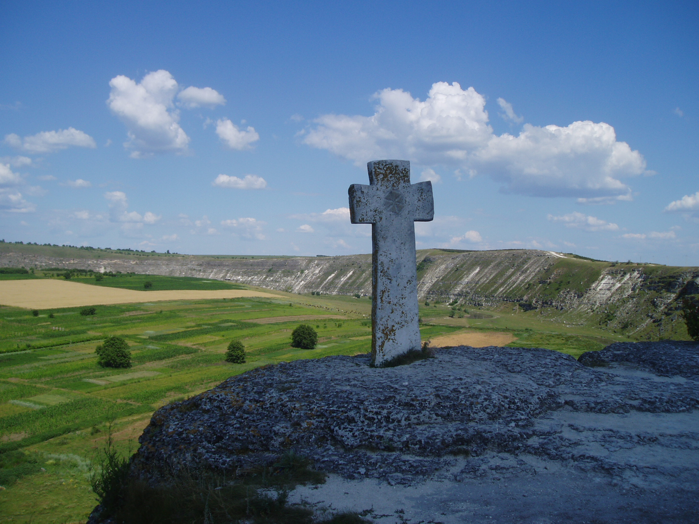 We had shadow, the fields had sun. Around Orheiul Vechi, Moldova.